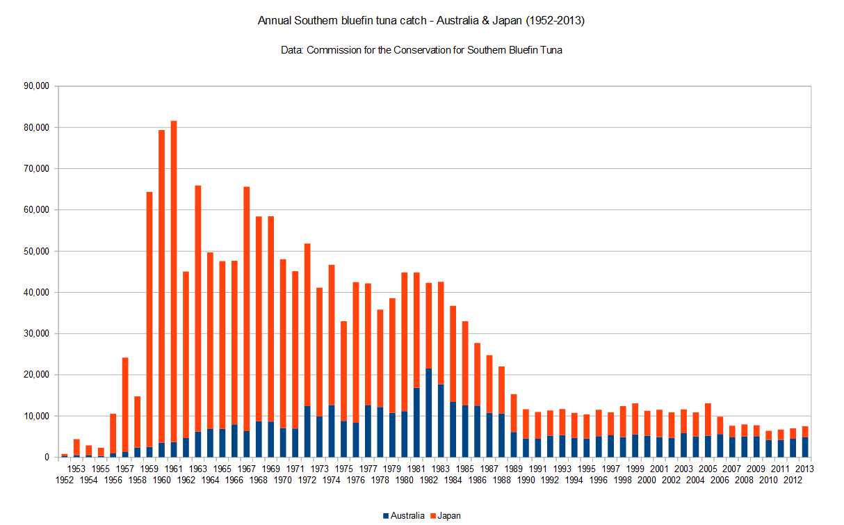 Graph of annual southern bluefin tuna catch - Australia & Japan (1952-2013). Data from the Commission for the Conservation of Southern Bluefin Tuna